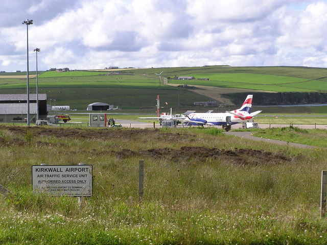 Kirkwall airport